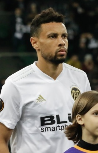 Francis Coquelin with Valencia CF before an Europa League game against FC Krasnodar.